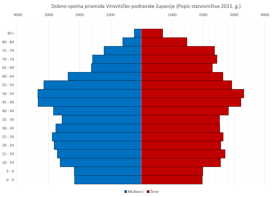 Population pyramid of Virovitica-Podravina County. Version in Croatian. Data from 2011 Census; available at